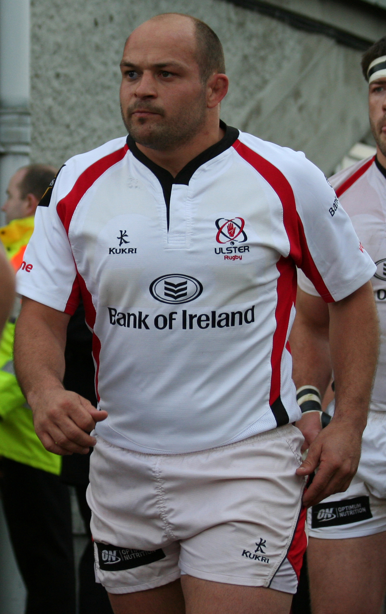 Ulster & Ireland hooker Rory Best lining out for Ulster against Ospreys in a Magner's League game at Ravenhill, Belfast.